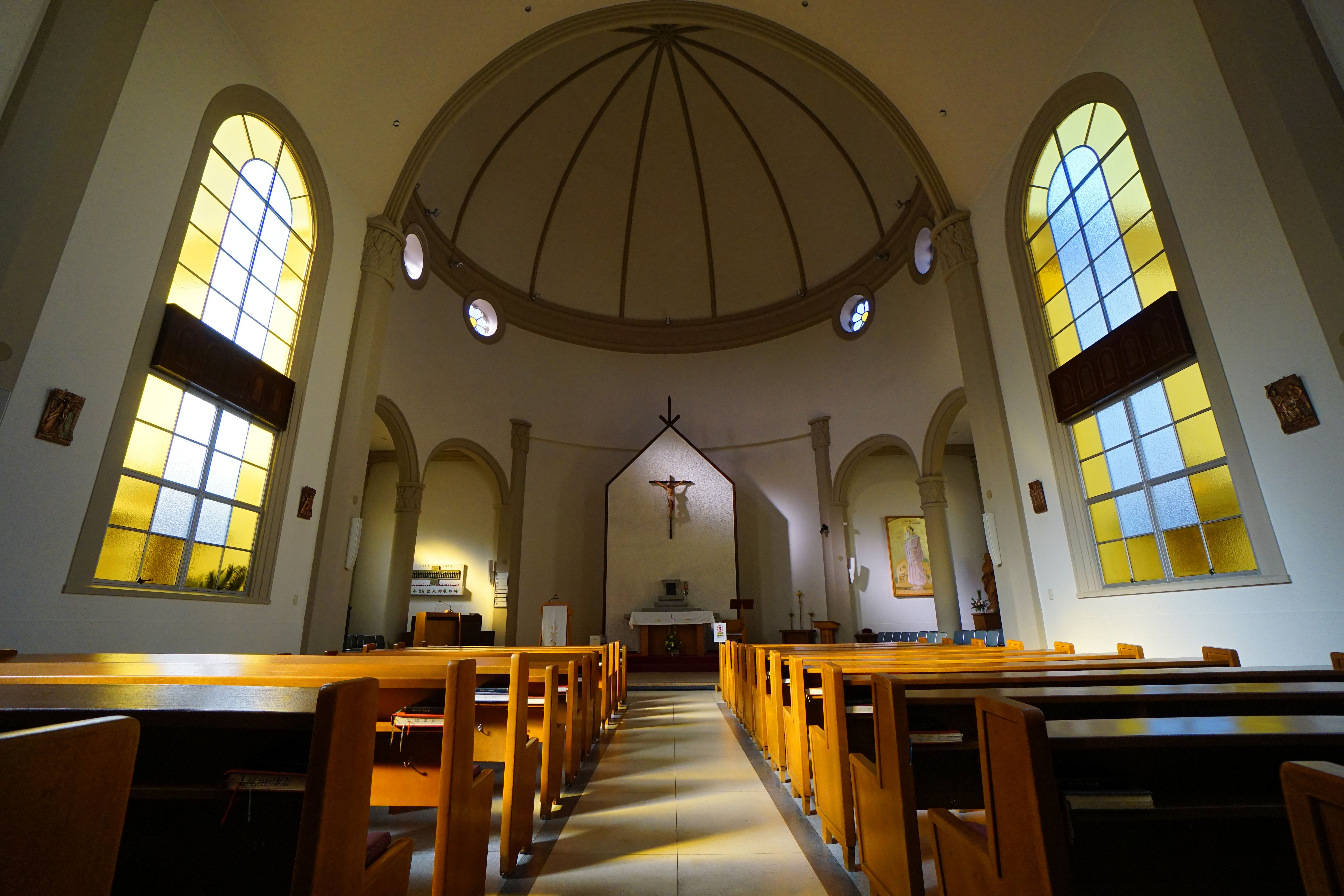 Takatsuki Catholic Church in Takatsuki, Osaka prefecture, Japan.